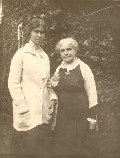 Picture of Hilda and Martha Belcher